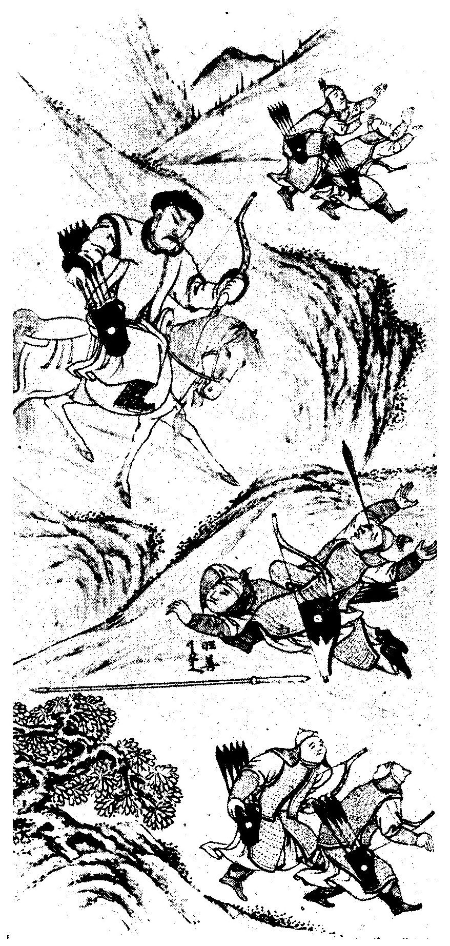 弩尔哈齐射敵救旺善